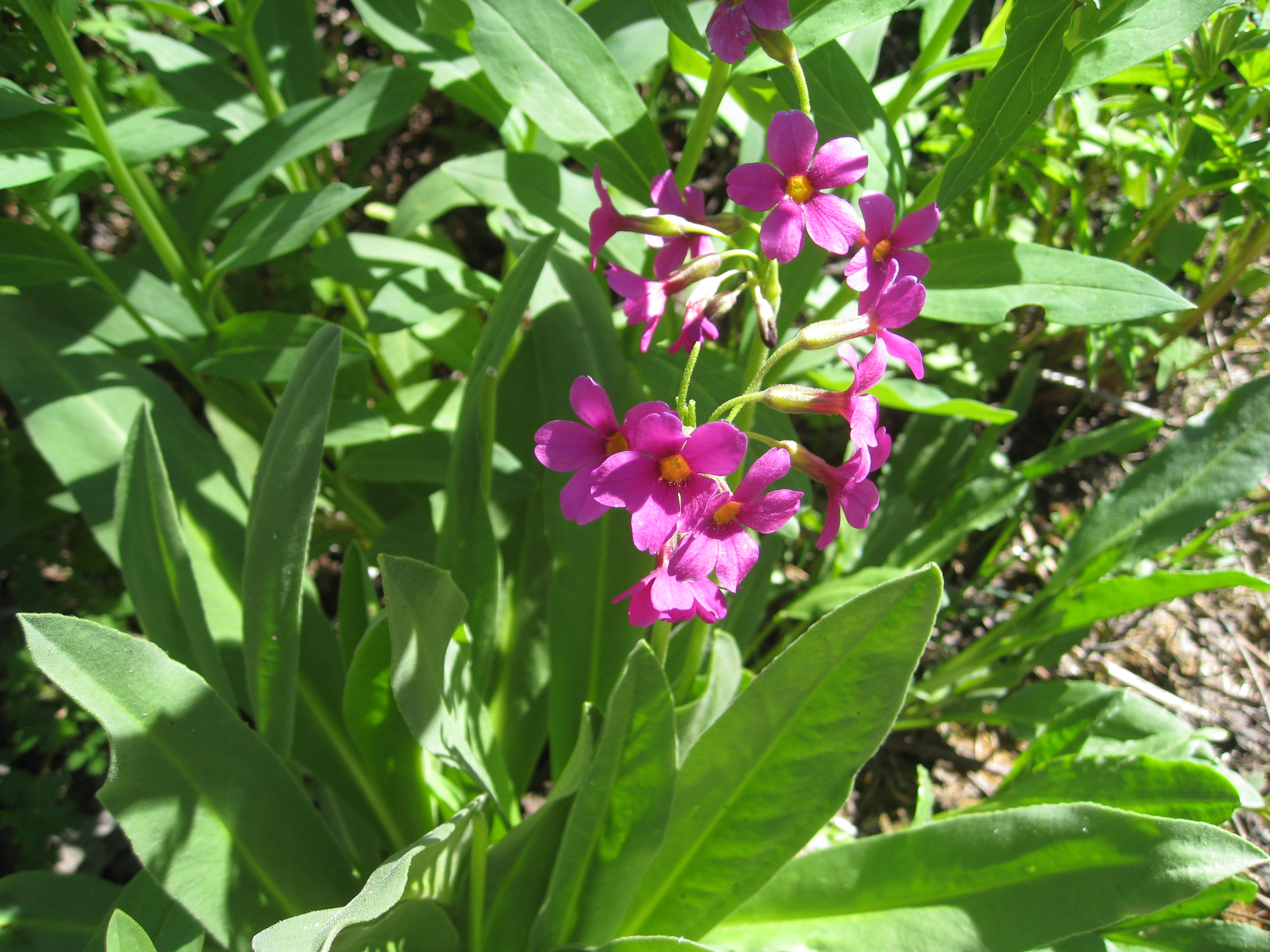 Primula parryi — Parry's primrose. In Cedar Breaks National Monument, Utah.